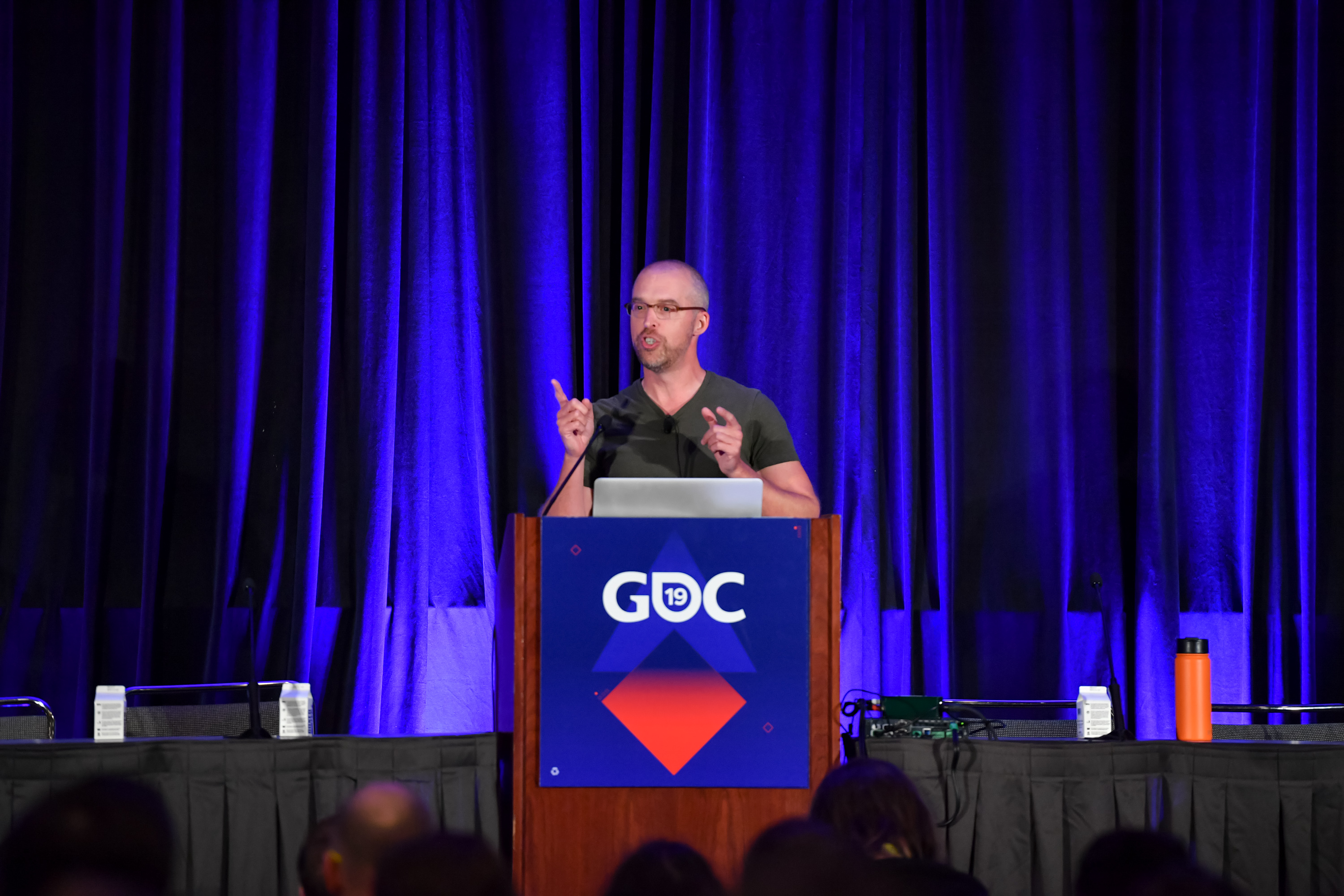 Charlie Cleveland, game director at Unknown Worlds, during his session “The Design of 'Subnautica'” at the Game Developers Conference 2019.